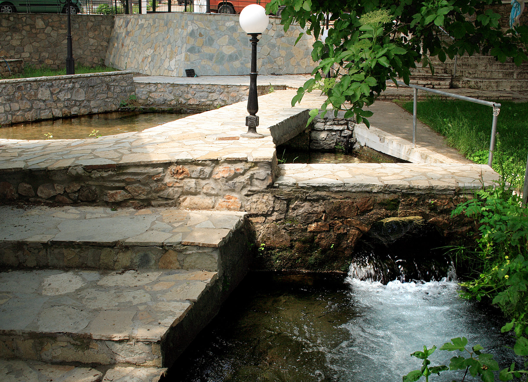 Stymfalia, Peloponnese, NE. Largest Karstsprings for the plain. Draining the Ziria bloc.